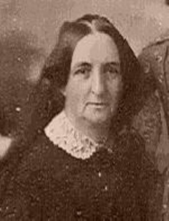 Photo of Martha Coffin Wright (1806-1875), feminist, abolitionist, signatory of the Declaration of Women's Rights. Obtained from the National Park Service site